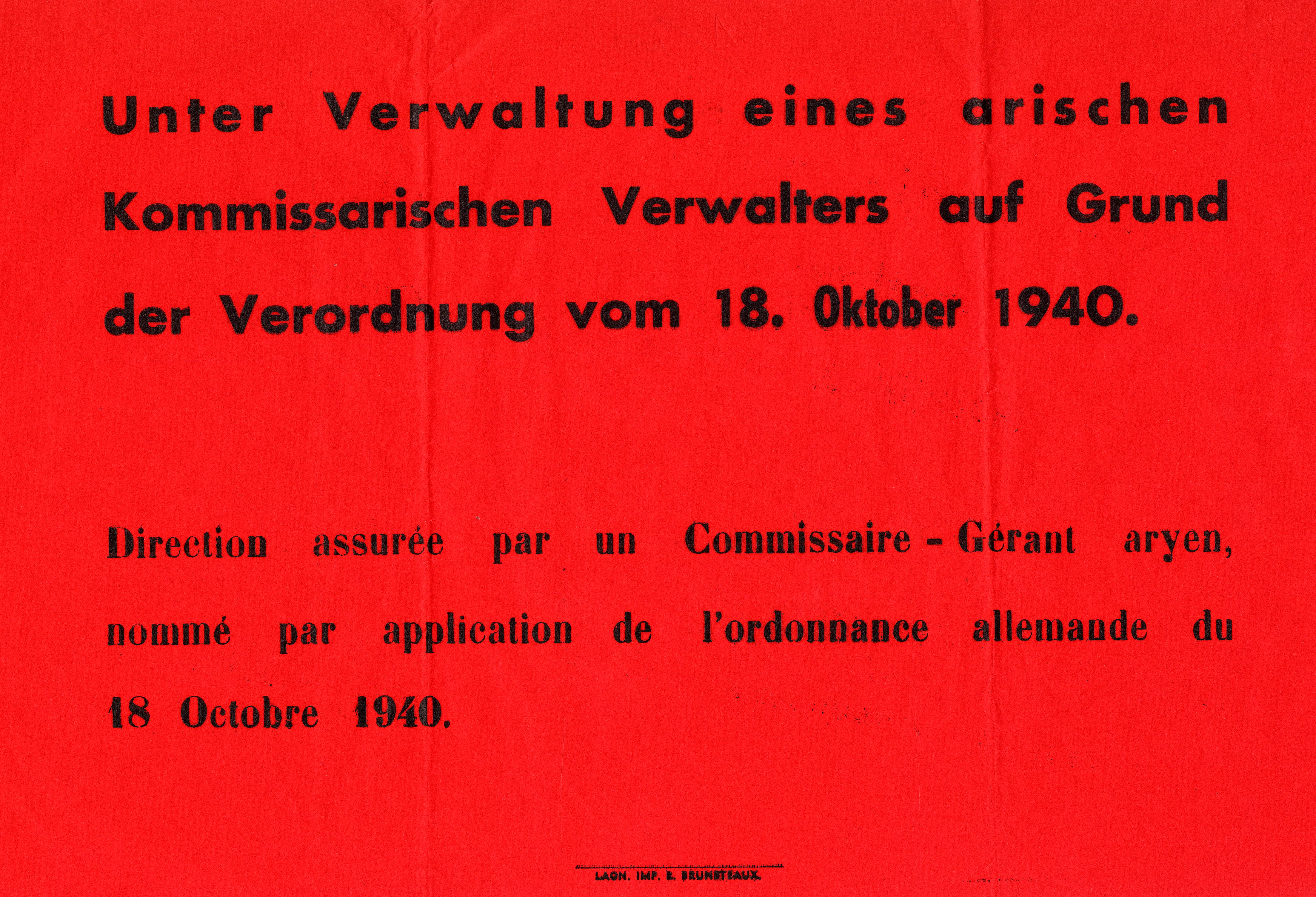 Aryanization poster of the jewish shops, after the nazi's ordinance (oct. 1940).